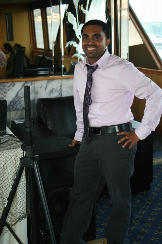 Giri Giri